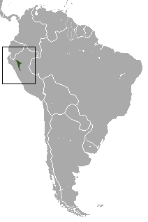 Yellow-tailed Woolly Monkey (Oreonax flavicauda) range